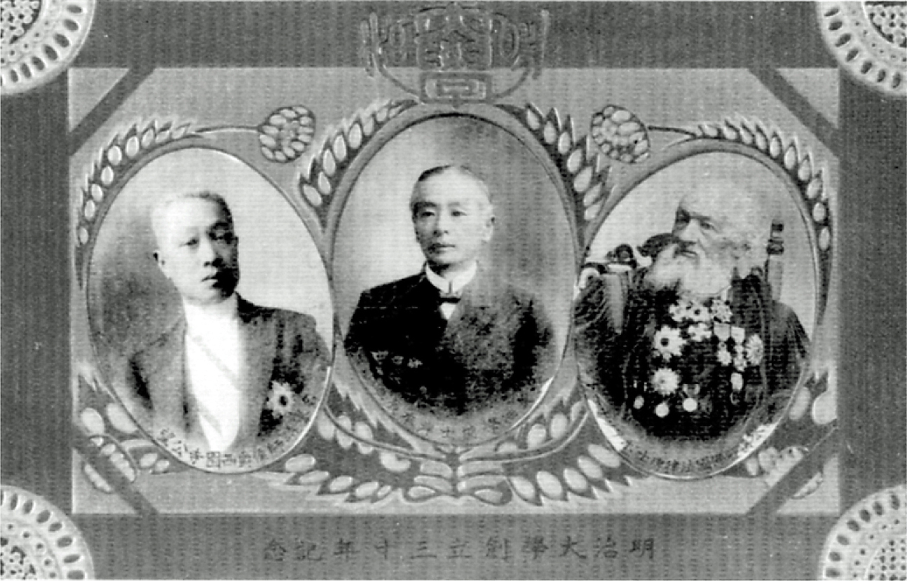 Postcard celebrating the thirtieth anniversary of the founding of Meiji University